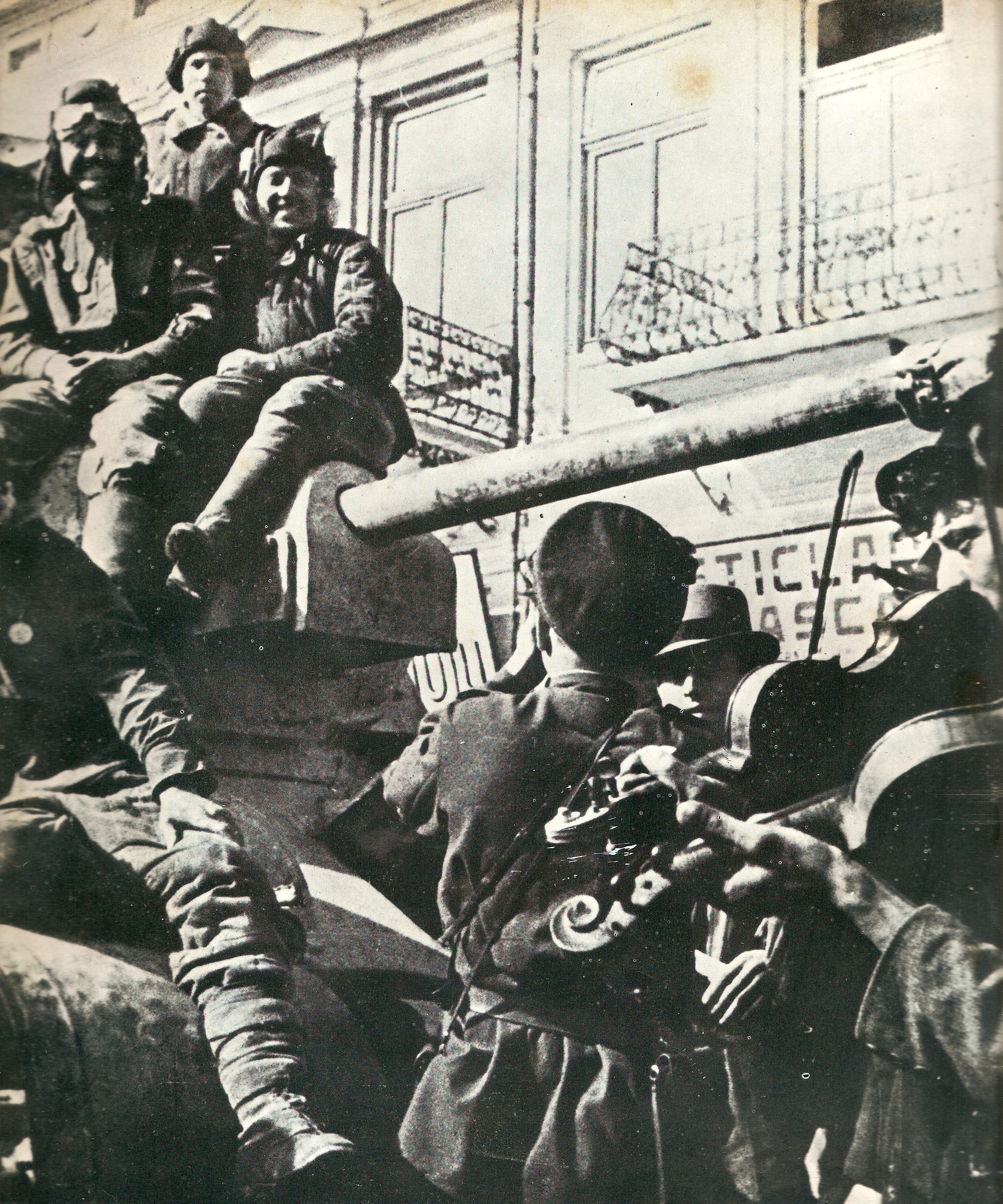 Soviet tank in Romania (september 1944)